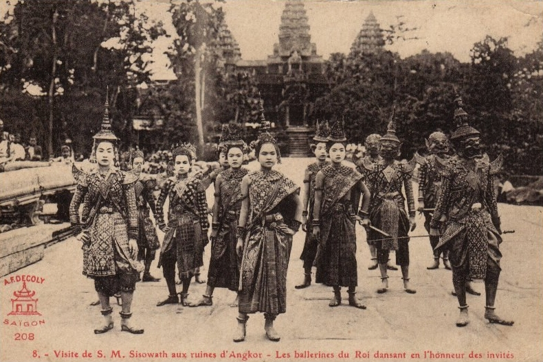 A visit to Angkor Wat by H.M. King Sisowath - The dancers of the King dance in honor of the guests.